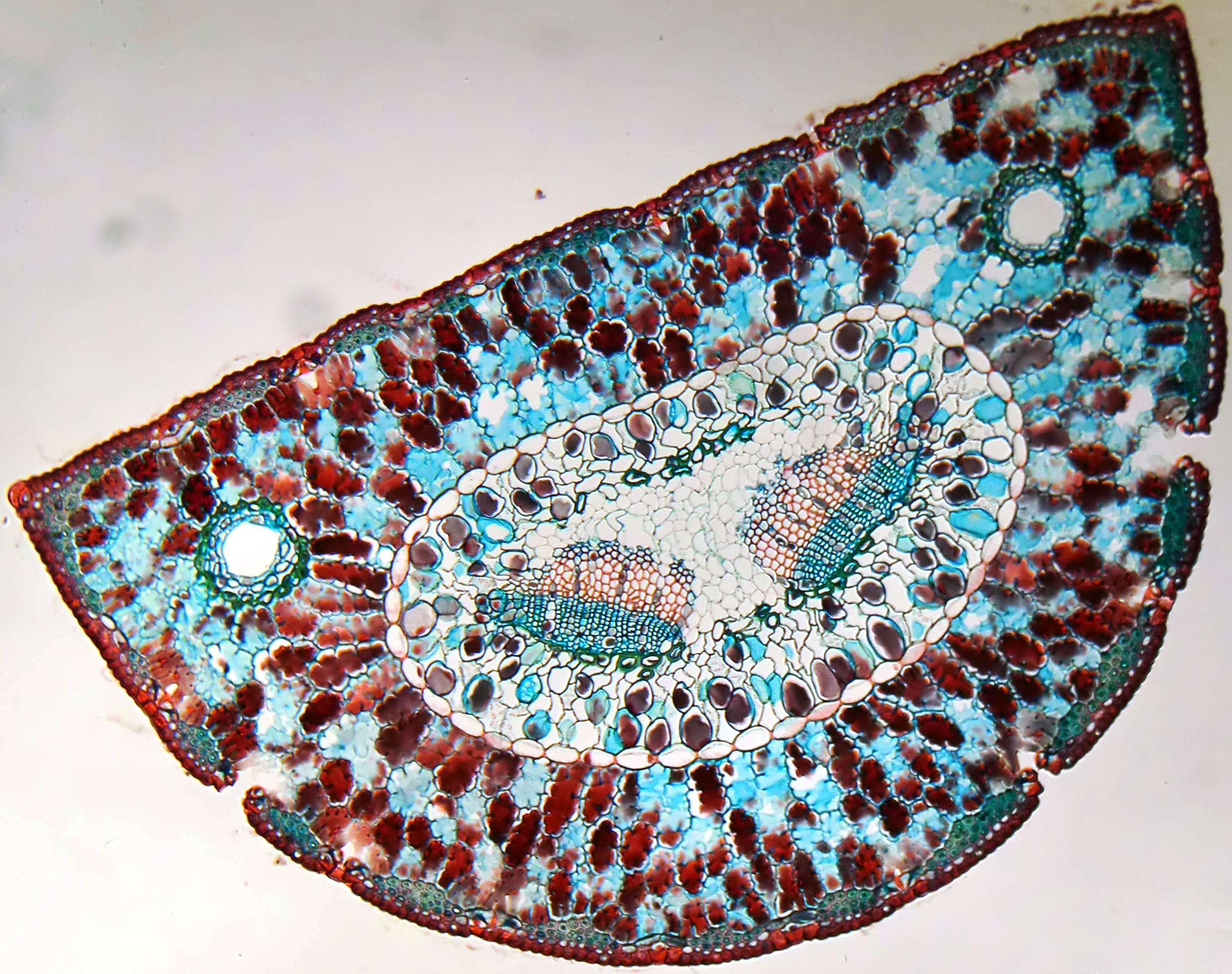 Cross section of needle from a Pinus sylvestris